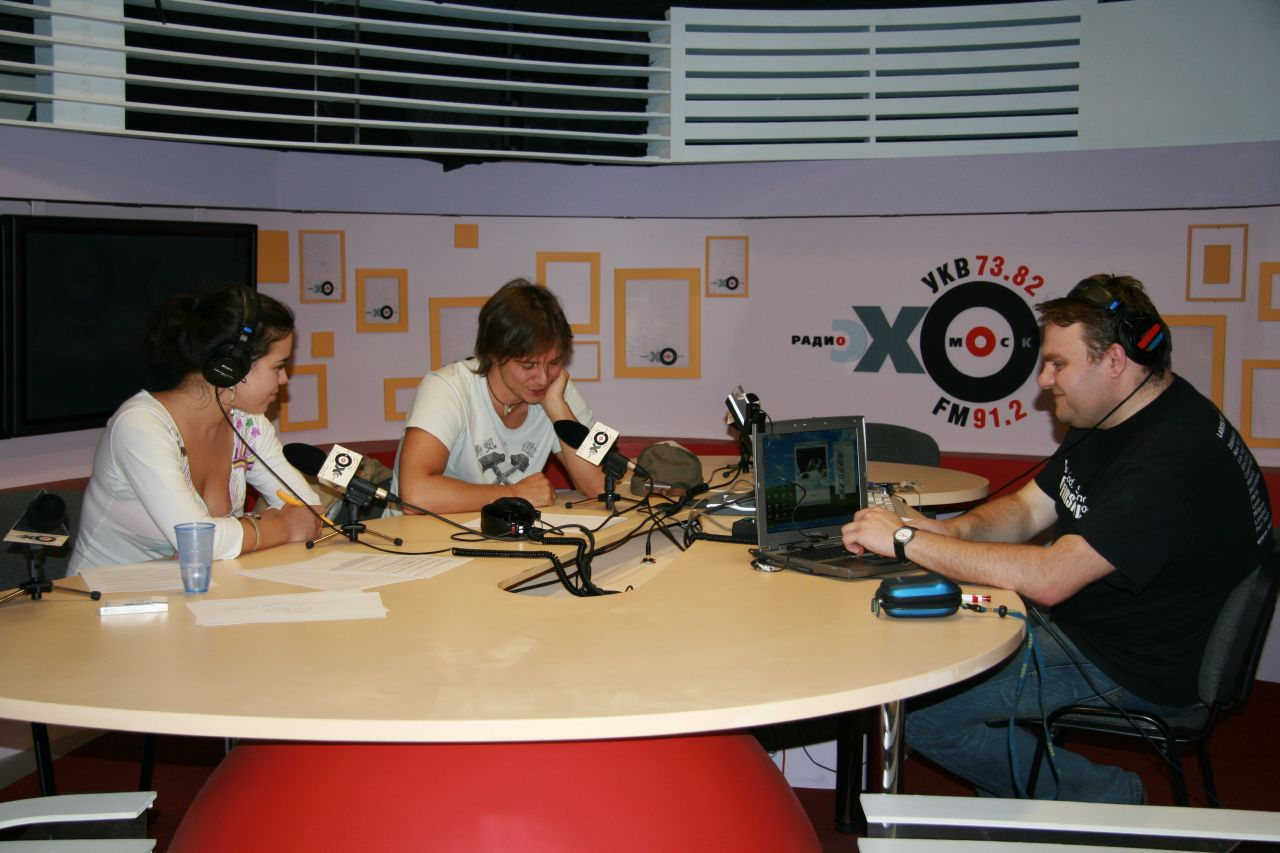 New television studio of Echo of Moscow and RTVi.